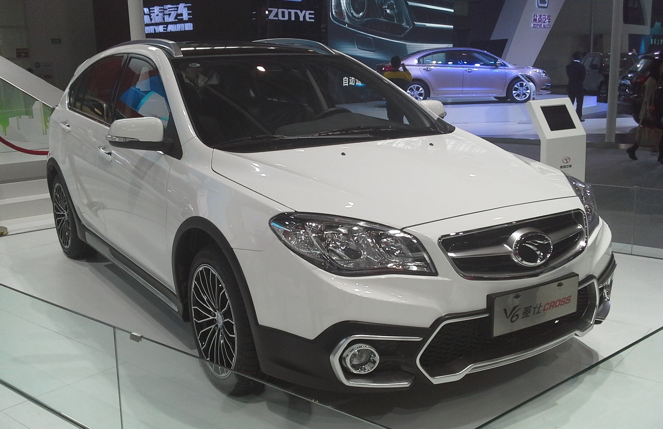 Soueast V6 Lingshi Cross photographed at the Auto China 2014, Beijing, China.